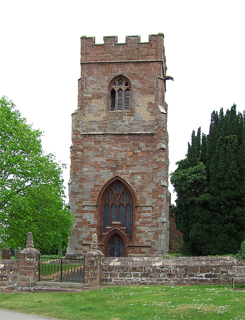 15th-century west tower of St Chad's parish church, Stockton, Shropshire, seen from the west